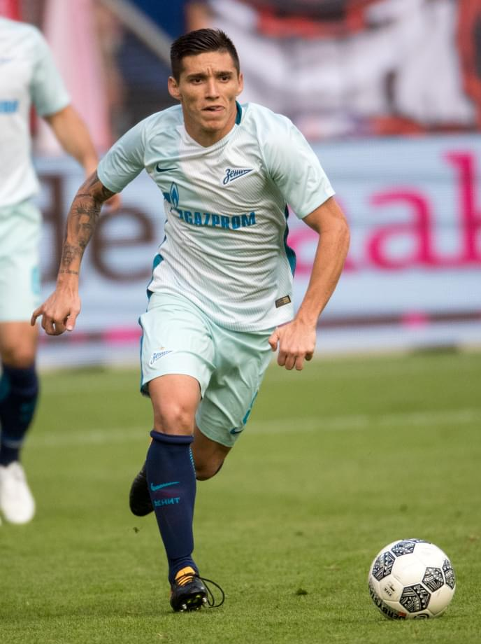 16.08.2017. Нидерланды, Утрехт, стадион «Галгенвард». Лига Европы УЕФА 2017/2018, 4-й квалификационный раунд, «Утрехт» — Зенит».